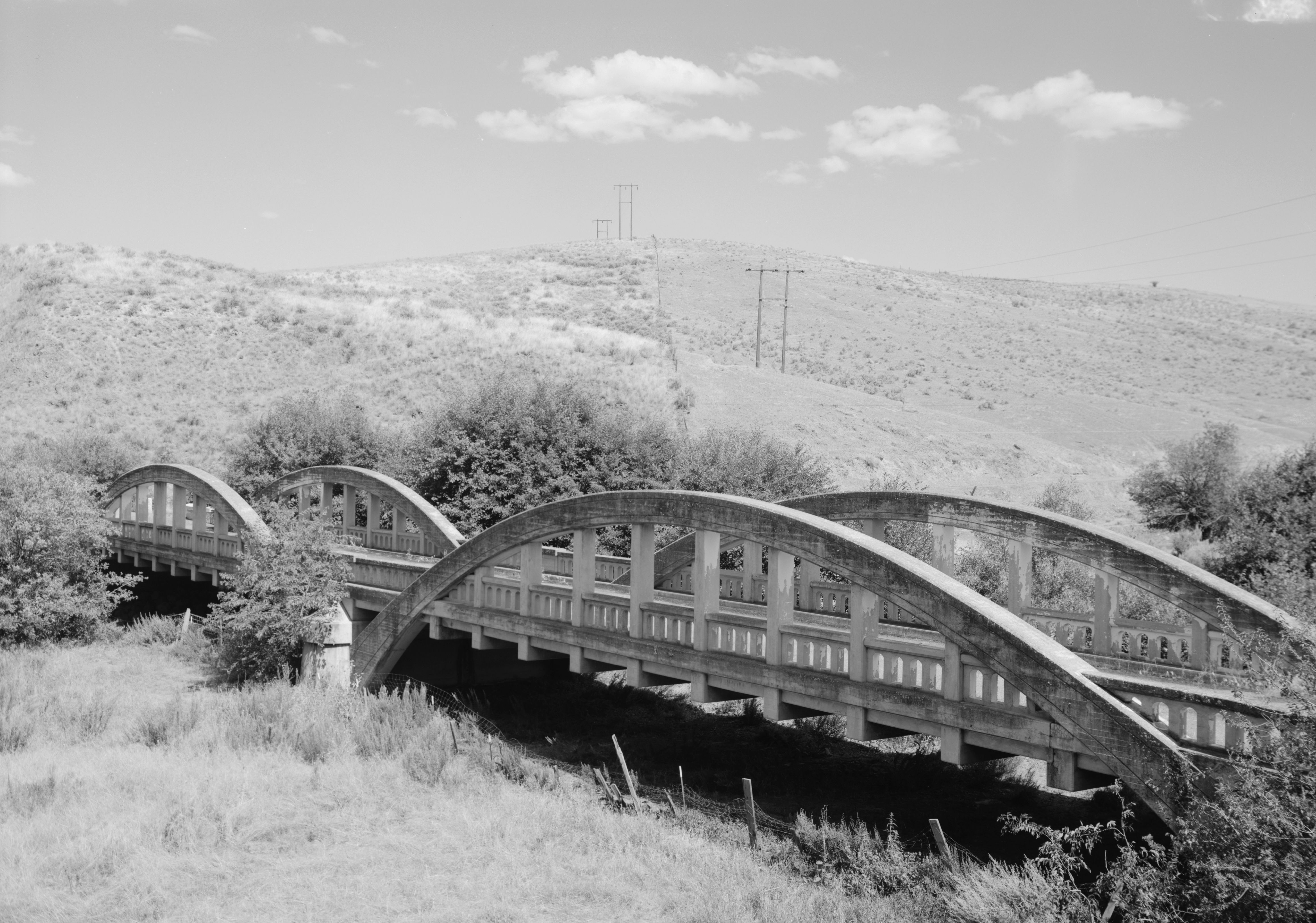 The Indian Timothy Bridge near Silcott, Asotin County, Washington.